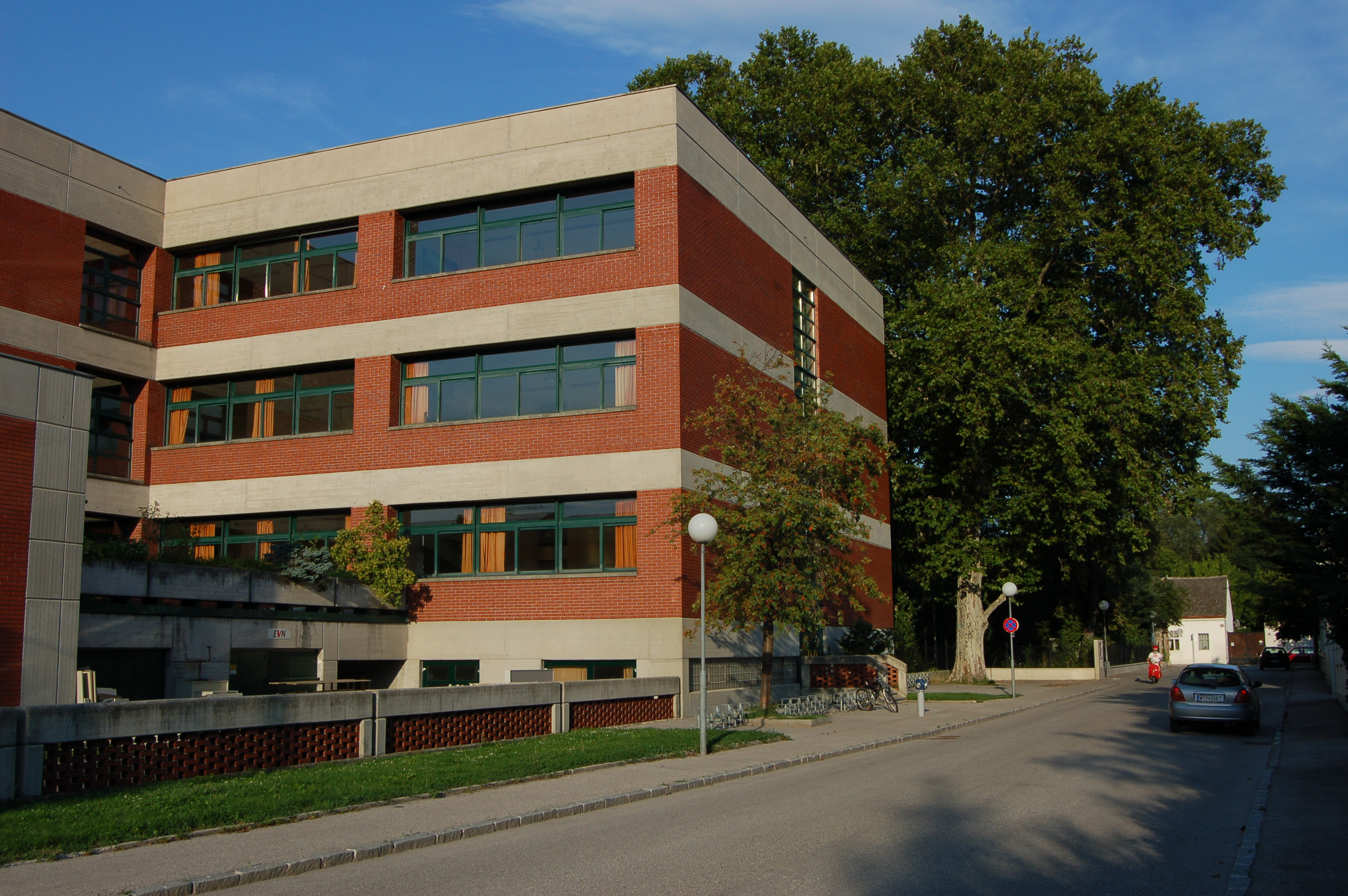 Federal grammar school Gröhrmühlgasse, Wiener Neustadt, Lower Austria (view alongside Burkhardgasse)